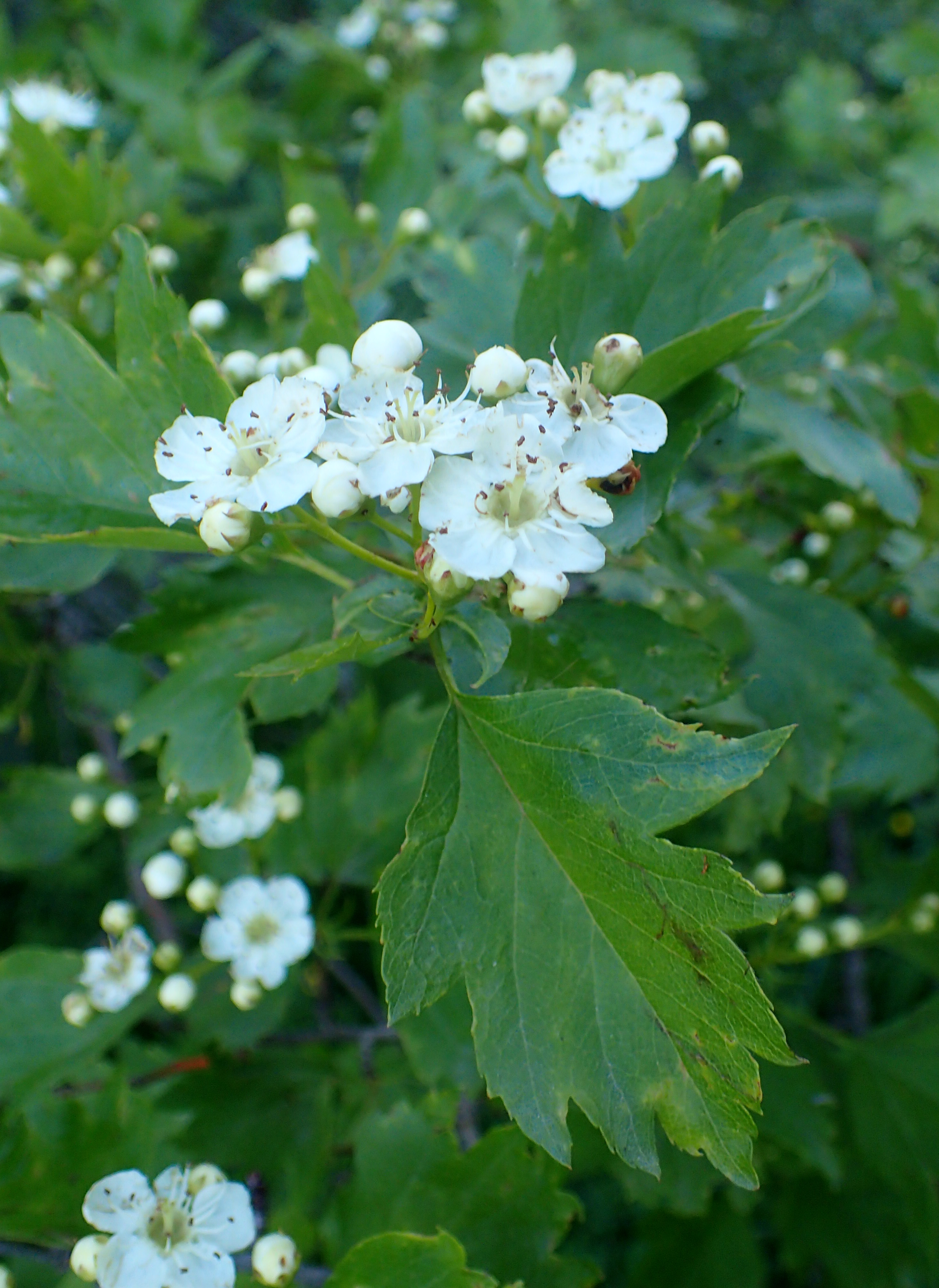 Crataegus nigra in Sevan Botanical Garden